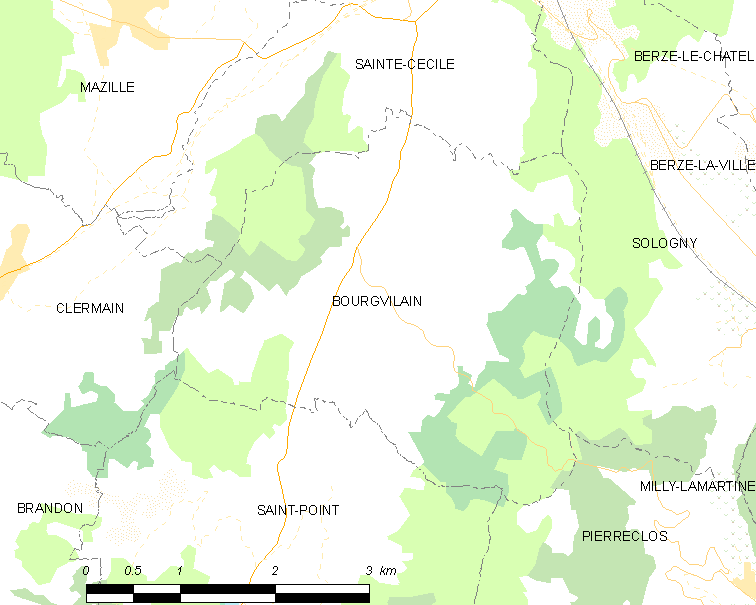 Map of French municipality